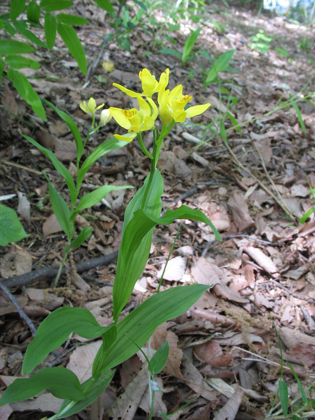 Photograph of Cephalanthera falcata,taken in Machida city, Tokyo, Japan.